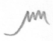 schleifer